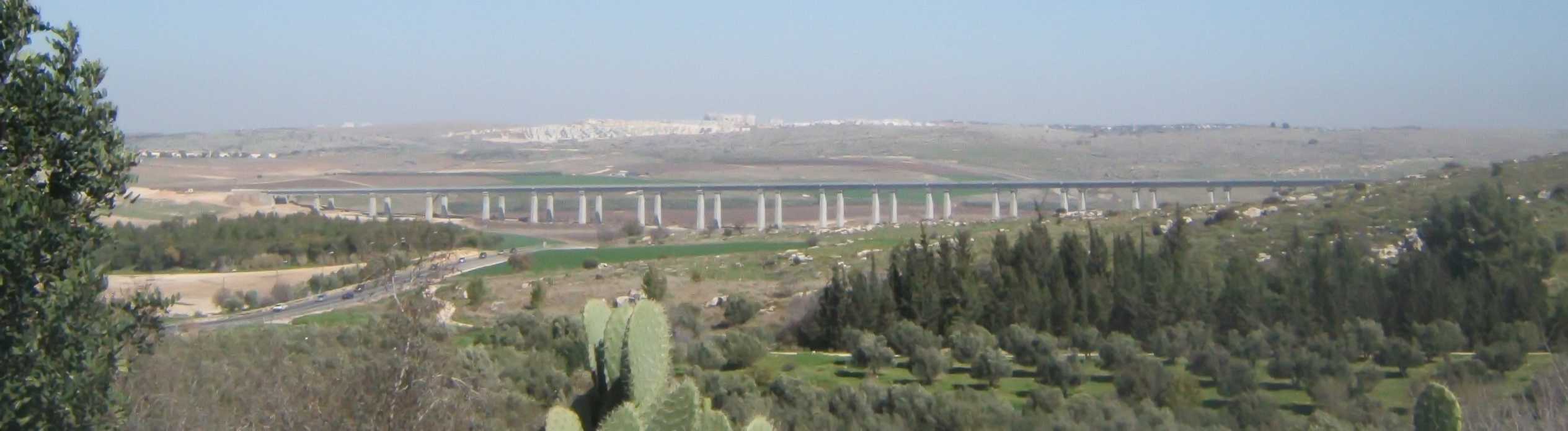 Bridge 6 on Modiin-Jerusalem new railway